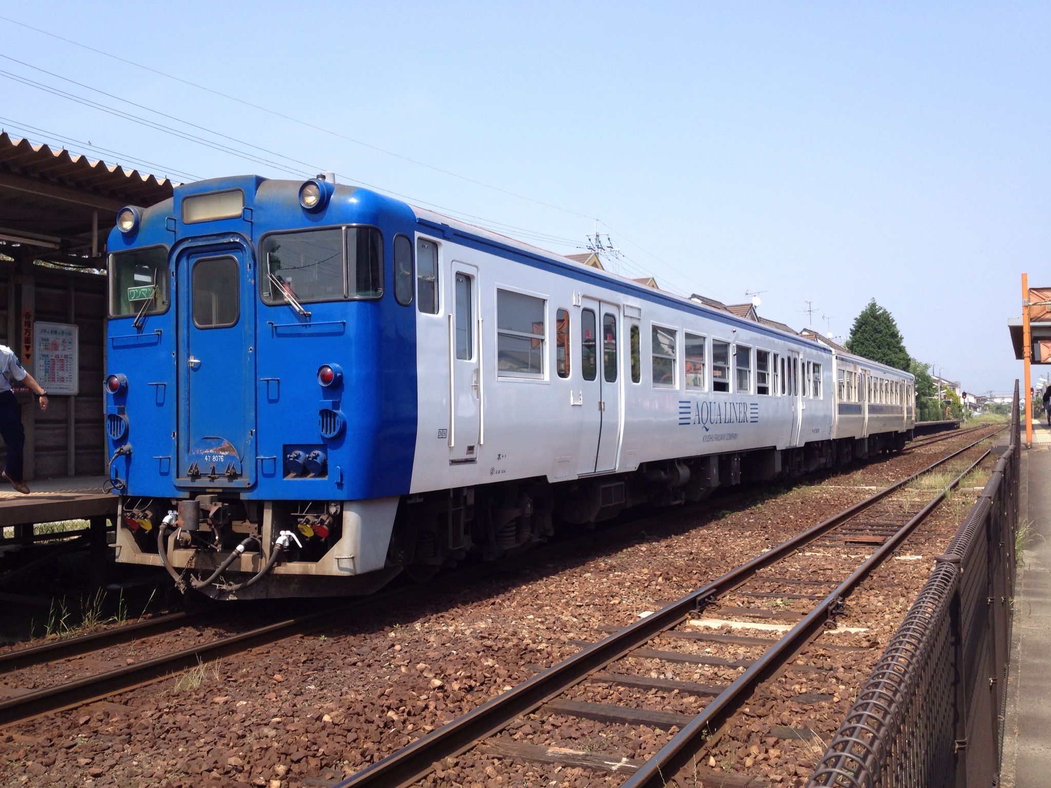 The Aqua Liner train at Gannosu Station